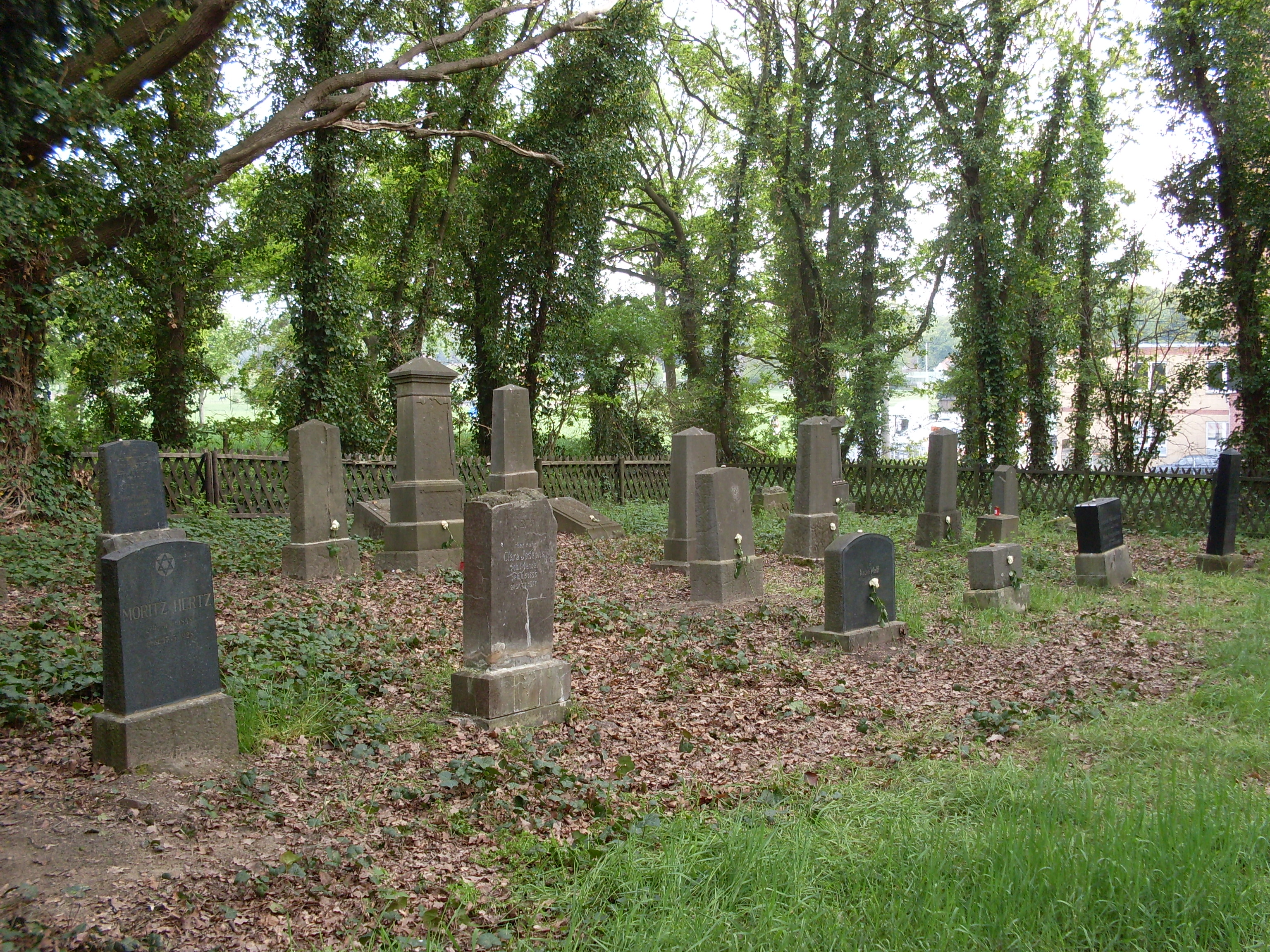 Jewish cemetery Gangelt